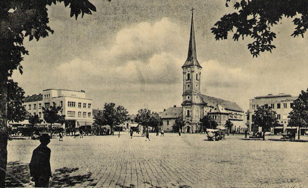 Main Square in 1940